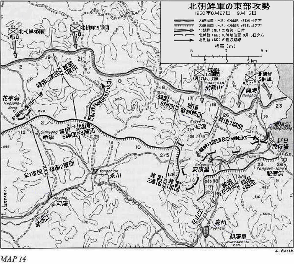 North Korean Attacks in the Kyongju Corridor; August 27-September 15 1950